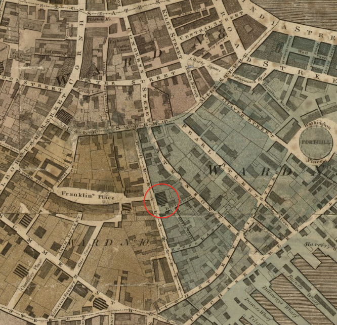 Detail of 1814 map of Boston by John Groves Hale, showing Federal Street and vicinity.